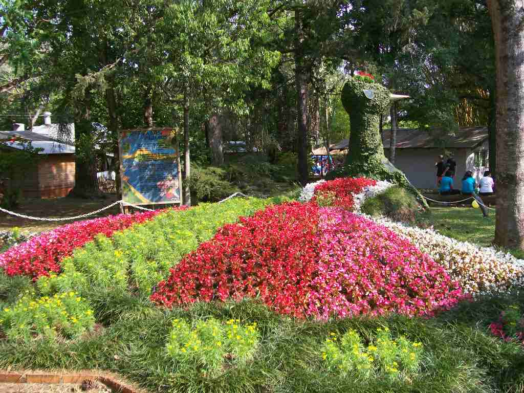 Indian peafowl decorated with flowers during Provincial Festival of Flower, in Montecarlo, Misiones, Argentina.